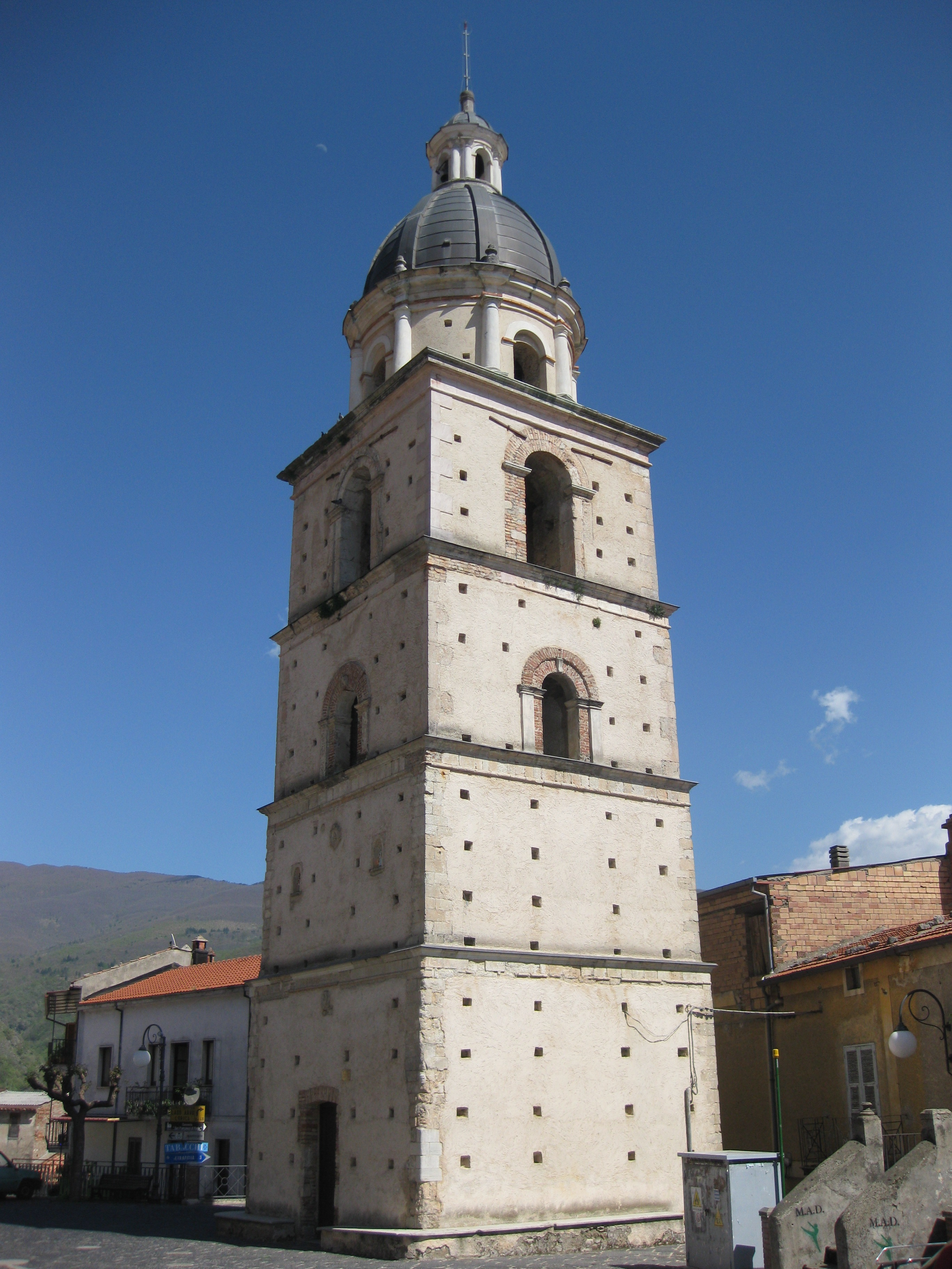 Campanile, Pedace